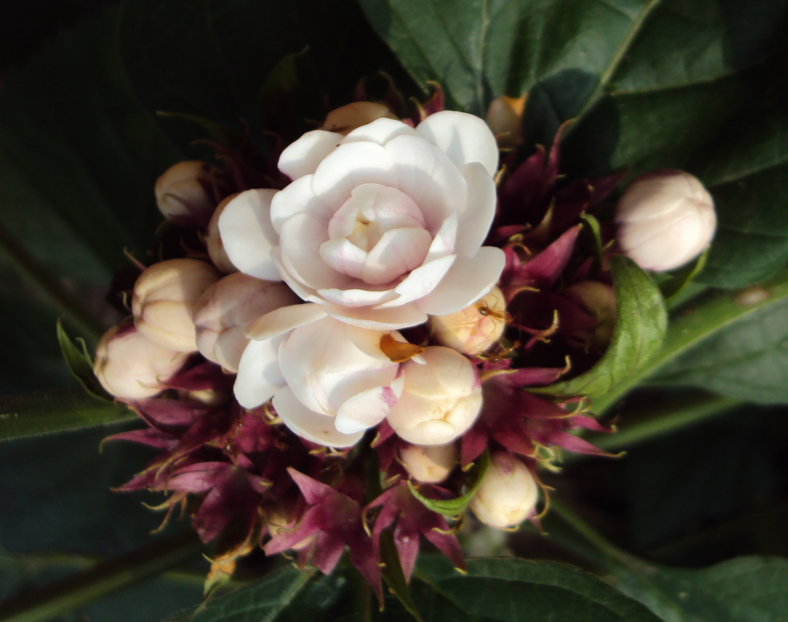 Clerodendrum chinense